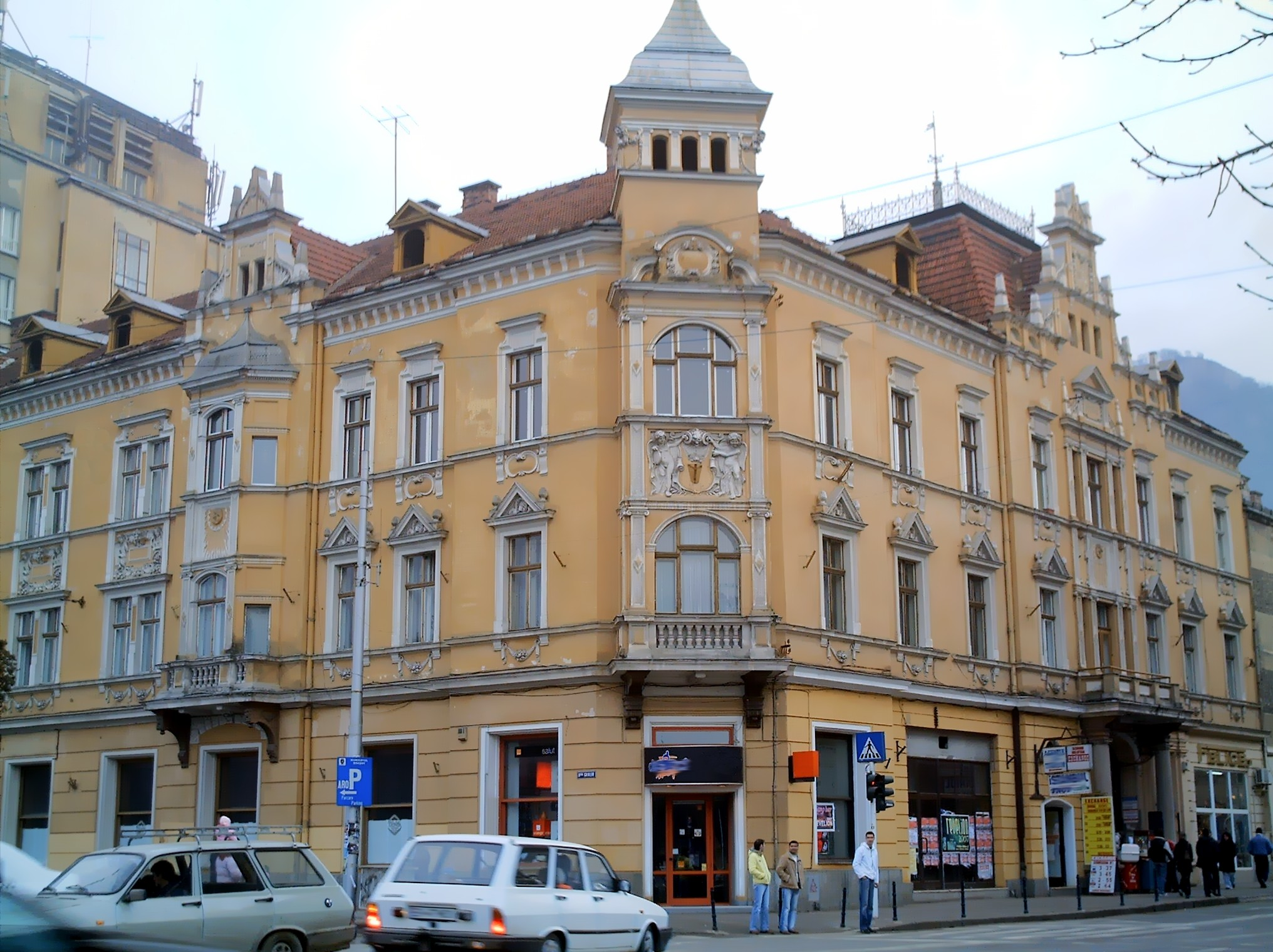 Build in 1901 by W. Czell